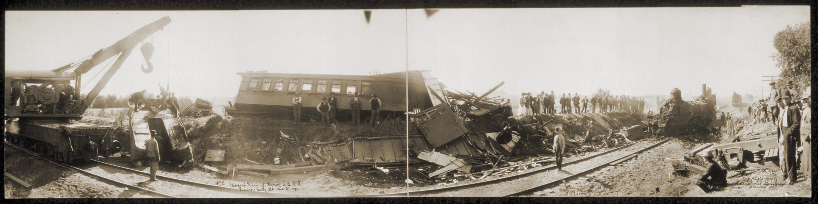 Trail derailment at Farmer City, Illinois. At left, a crane lifts pieces of a railcar. In the center, men stand by passenger car that is already at the side of the tracks. At right, people look on next to a damaged locomotive engine. Original caption: "#II General View of Wreck, I.C.R.R. Farmer City, Ill. Oct 5 - '09 Copyright 1909 by International Stereograph Co. Decatur, Ill." — from bottom of photograph